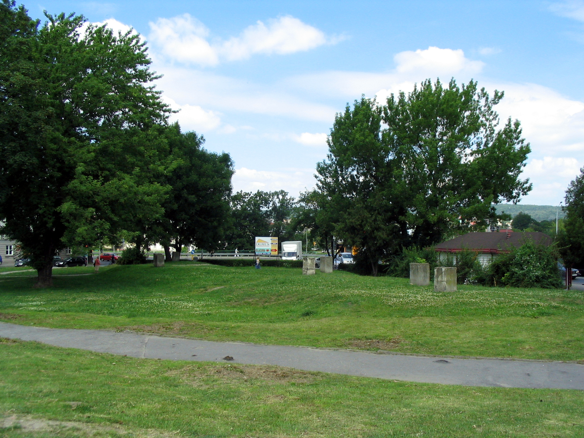 The place where Tempel Synagogue used to be standing - Przemyśl, Poland